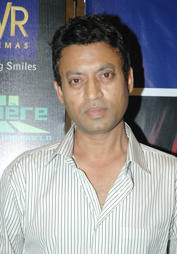 Irrfan Khan at the launch of NDTV Lumiere's The Orphanage